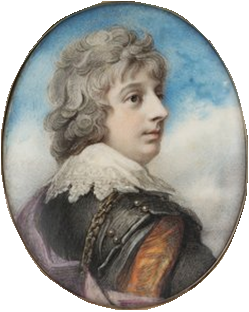 William Courtenay,3rd Viscount Courtenay (c.1768-1835), later 9th Earl of Devon, painted in 1793 aged 25. Miniature by Richard Cosway (1742-1821). Watercolour on ivory, with unidentified lock of hair sealed behind, 7.2 cm high. Collection of Royal Albert Memorial Museum, Exeter, purchased 2010 via dealer Philip Mould, for £24,500 with assistance of grants from the Museums, Libraries and Archives Council (MLA)/ Victoria & Albert Purchase Grant Fund, the Art Fund (granted £7,000) and the Friends of Exeter Museums and Art Gallery. Provenance: "? collection of Edward Joseph, 1889; ? collection of Frank Woodroffe; John Pierpont Morgan (1837-1913), New York; Christie's, 1935; ? Frank Partridge; Christie's, 1974; private collection; Christie's, 2002; private collection" (per Sources: ( (